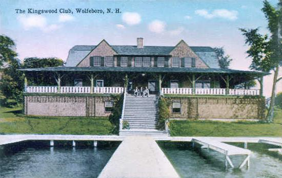 The Kingswood Club, Wolfeboro, NH; from a c. 1910 postcard.